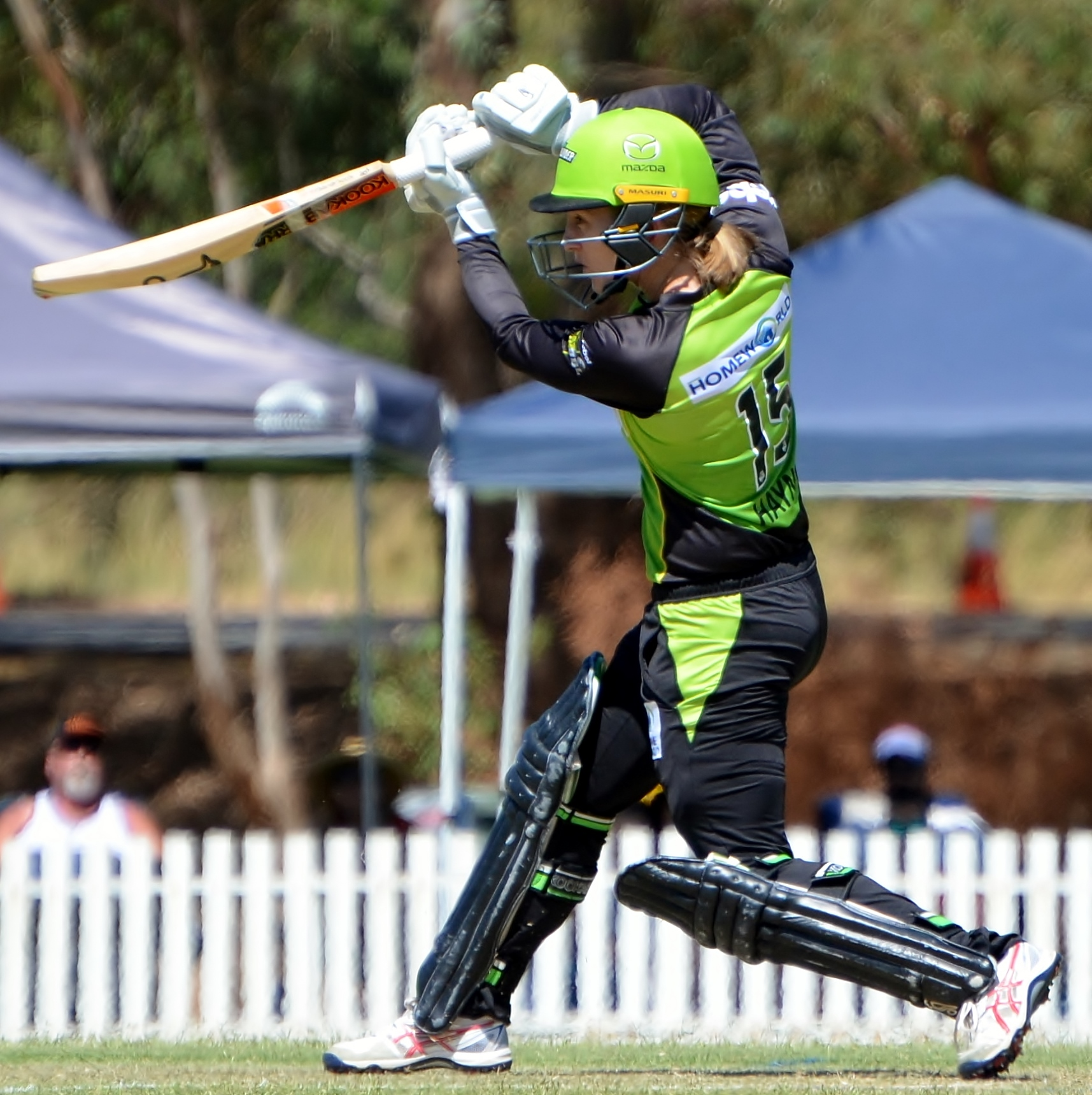 Sydney Thunder opener Rachael Haynes plays a straight drive against the Perth Scorchers, in a WBBL match at Lilac Hill Park in Perth